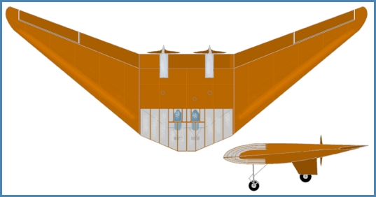 Horten H5a